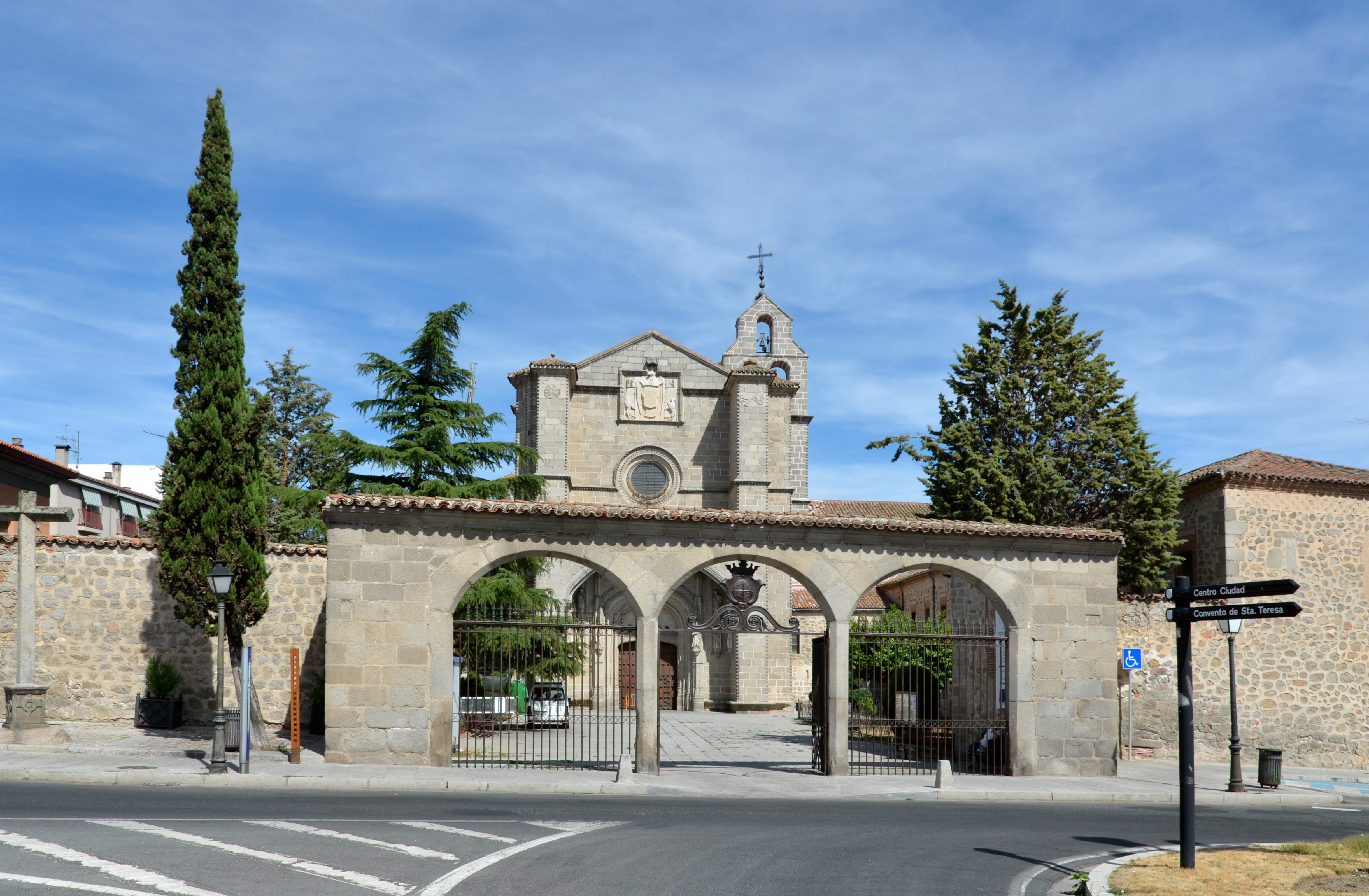 Real Monasterio de Santo Tomás in Ávila, Spain